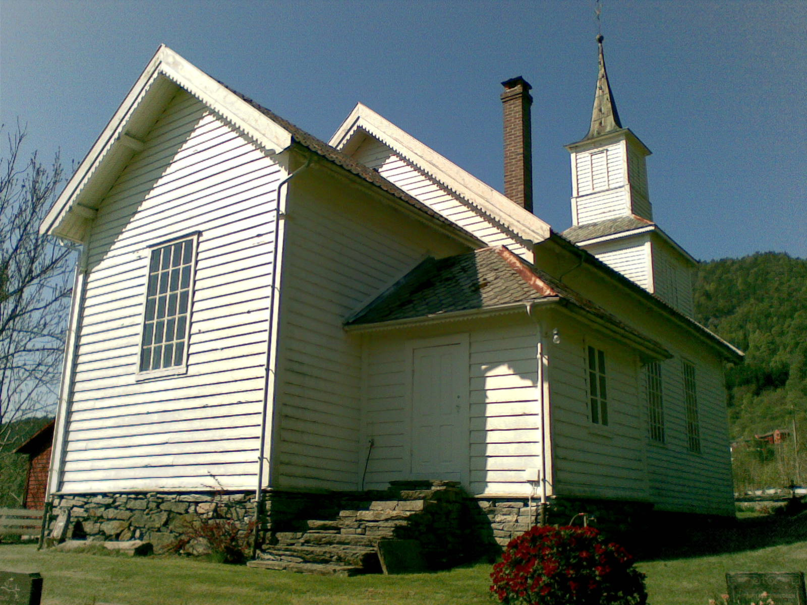 The parish church in Bø, Hyllestad, Sogn og Fjordane